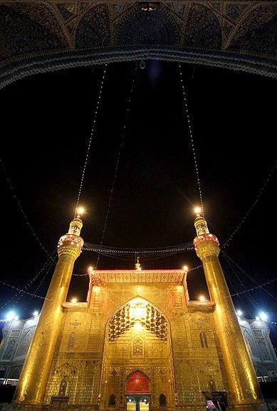 Imam Ali Shrine